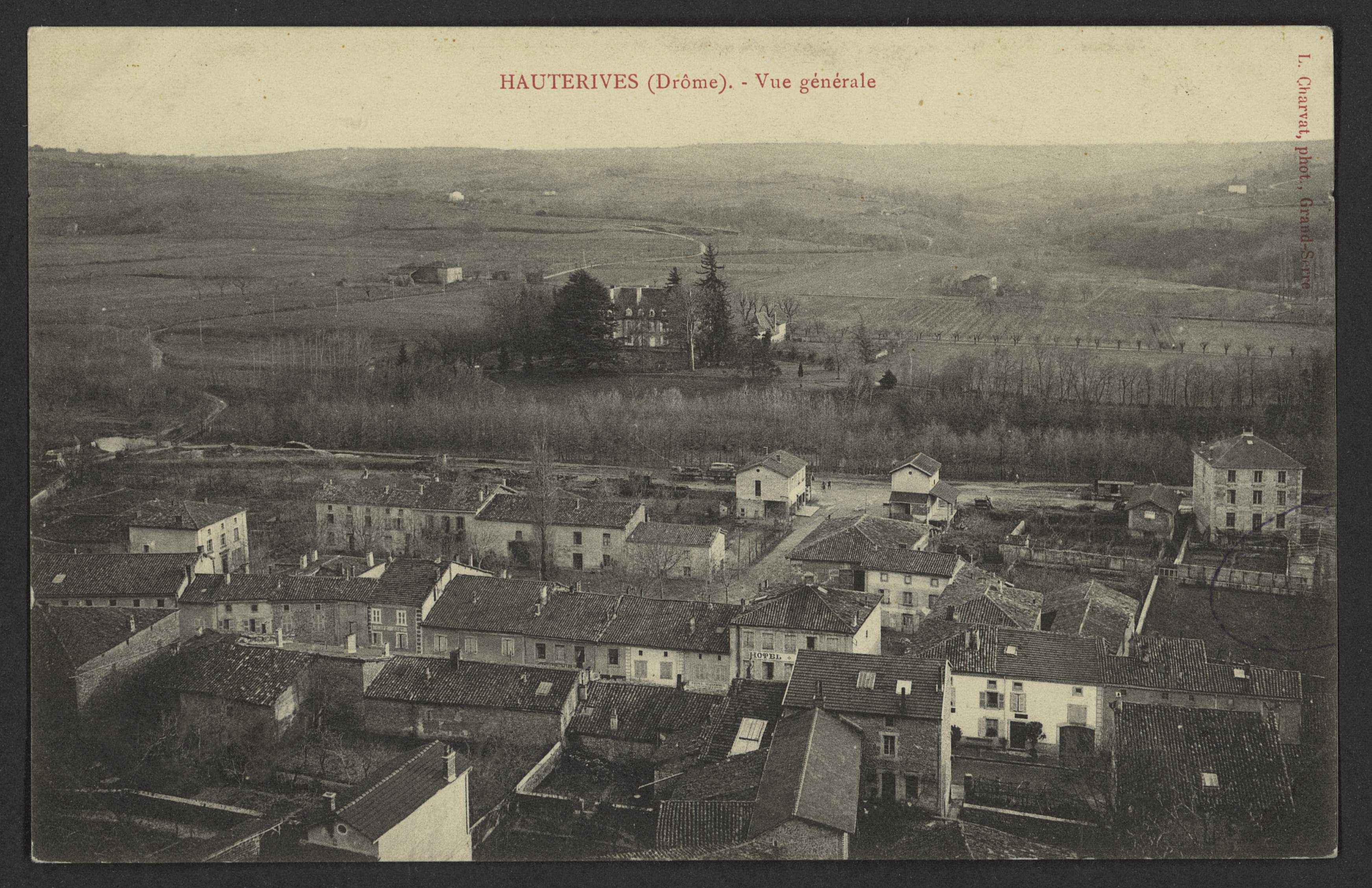 CA 1905